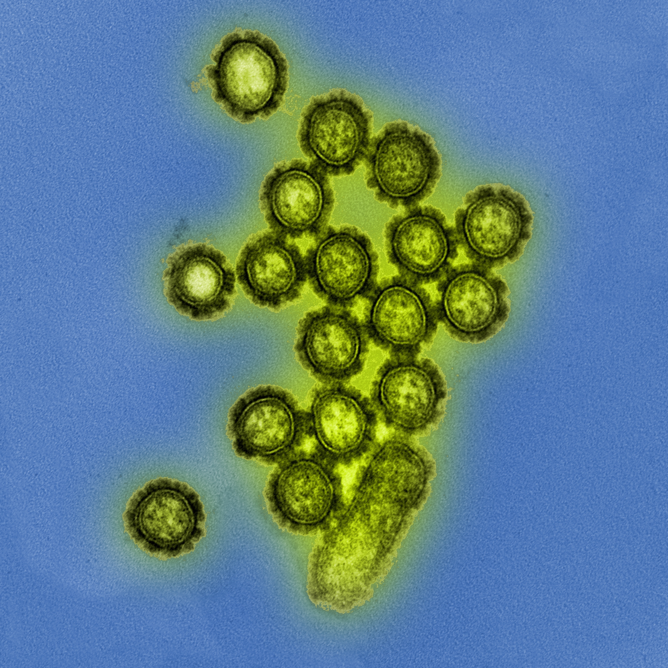 Colorized transmission electron micrograph showing H1N1 influenza virus particles. Surface proteins on the virus particles are shown in black. Credit: NIAID